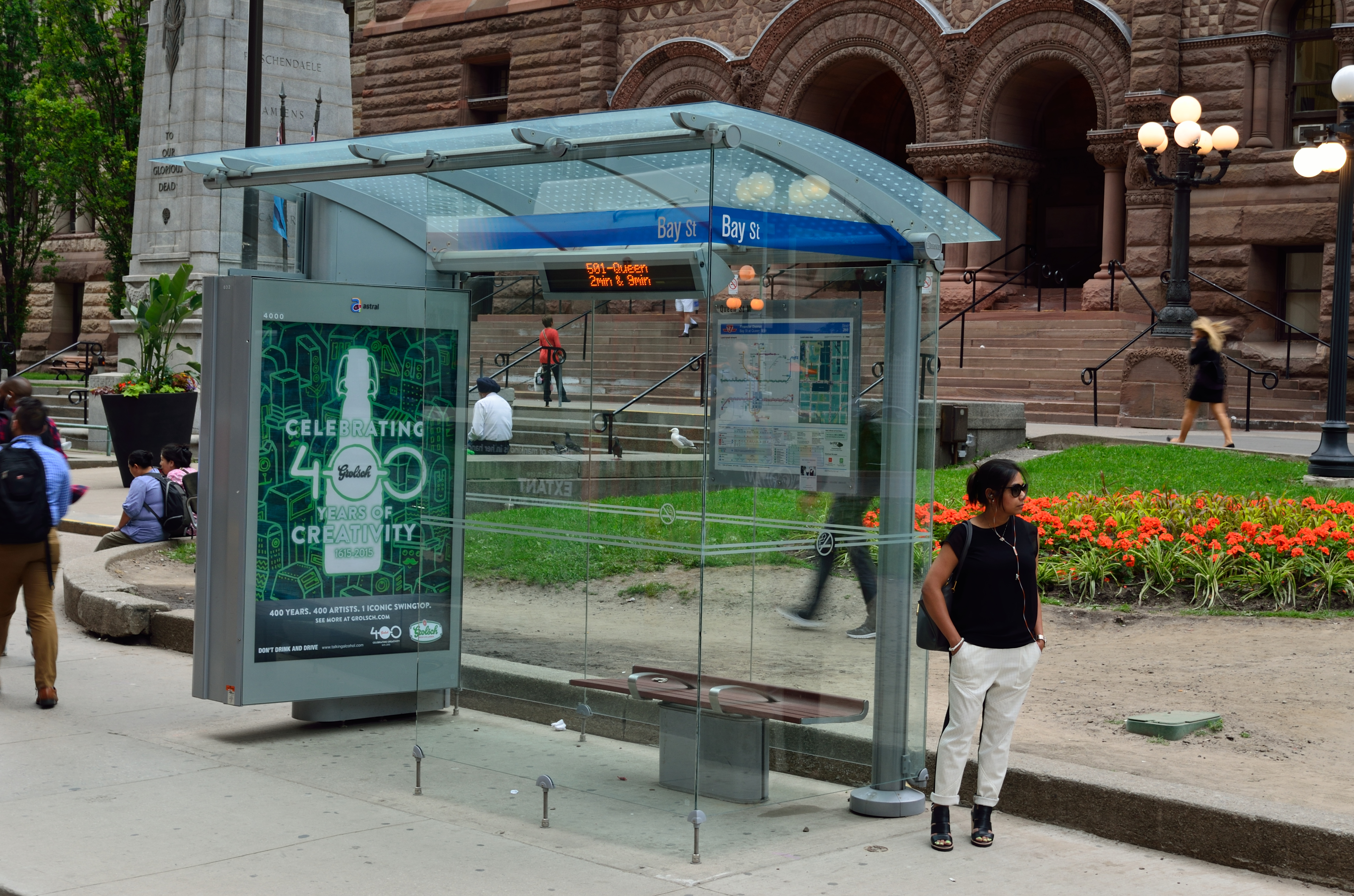 TTC streetcar shelter at Bay & Queen St.